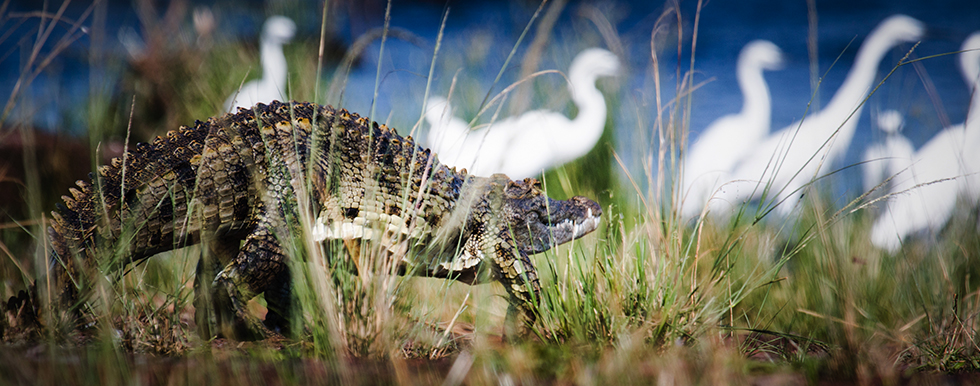 crocodile